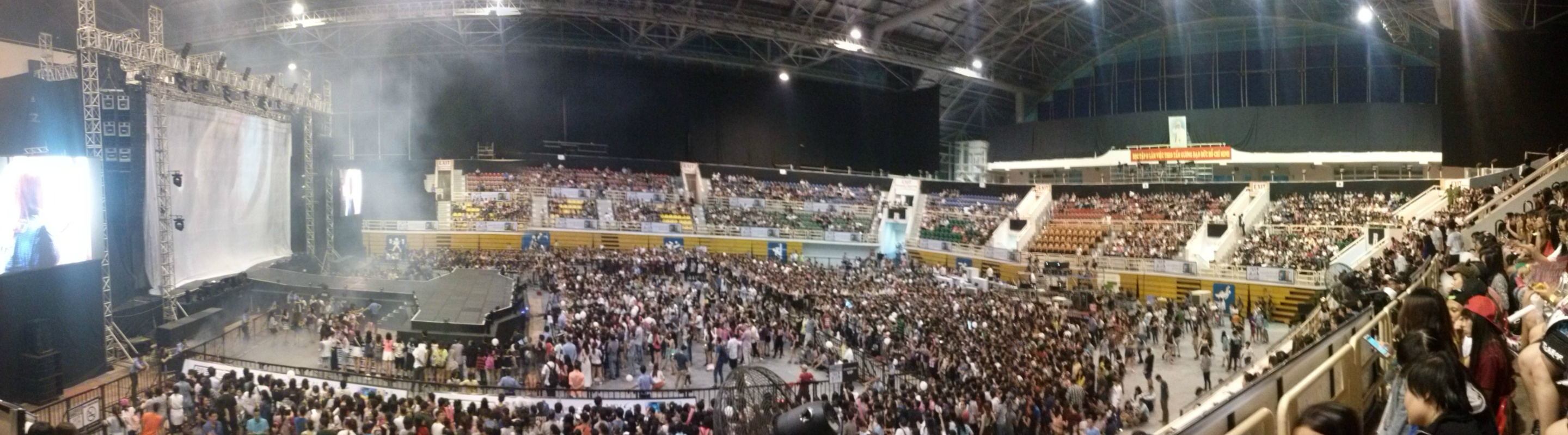 Inside Phu Tho Indoor Stadium